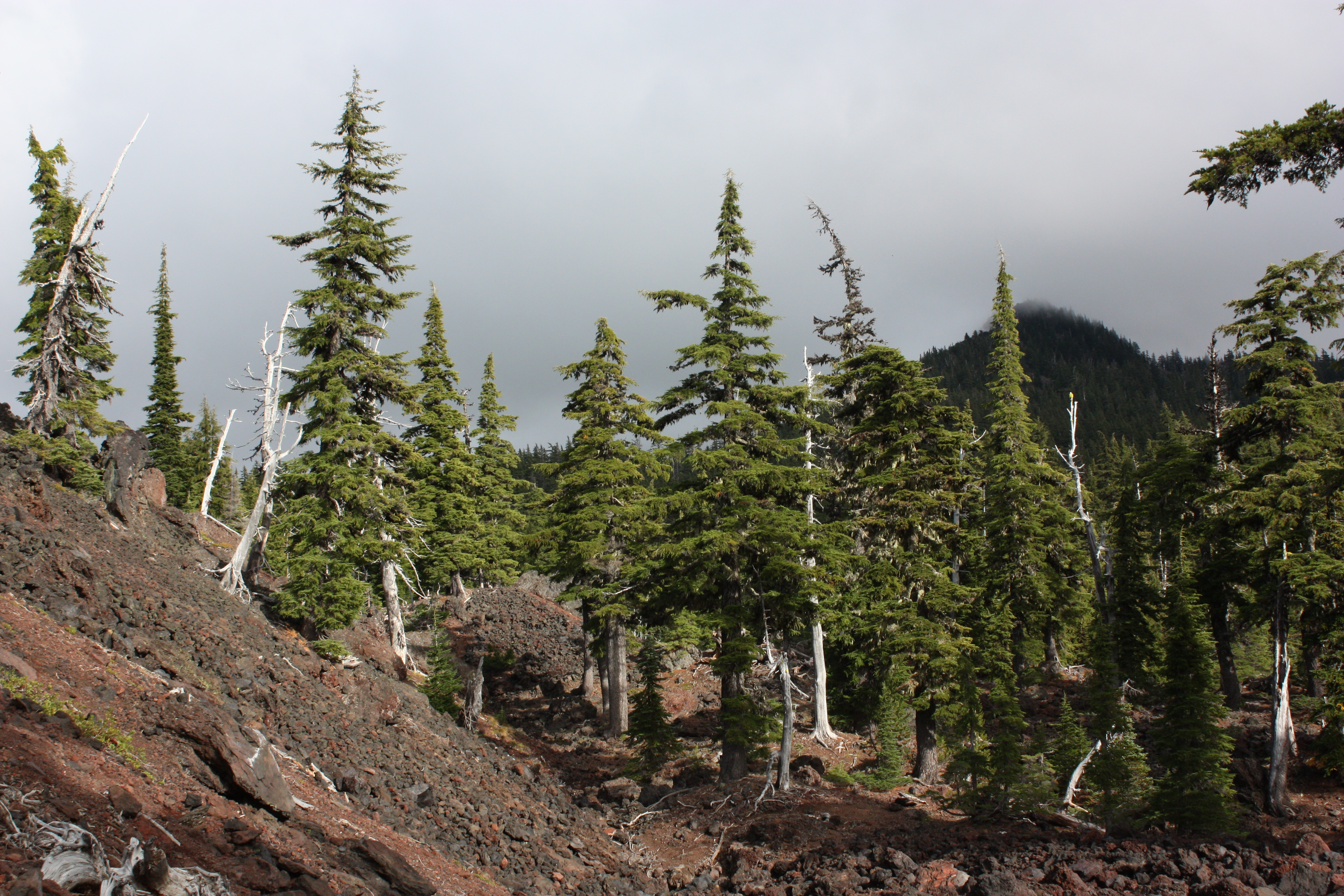 Mountain Hemlock Basaltic andesite and andesite of Collier Cone (Qybc), 1,600±100 14C yr B.P.